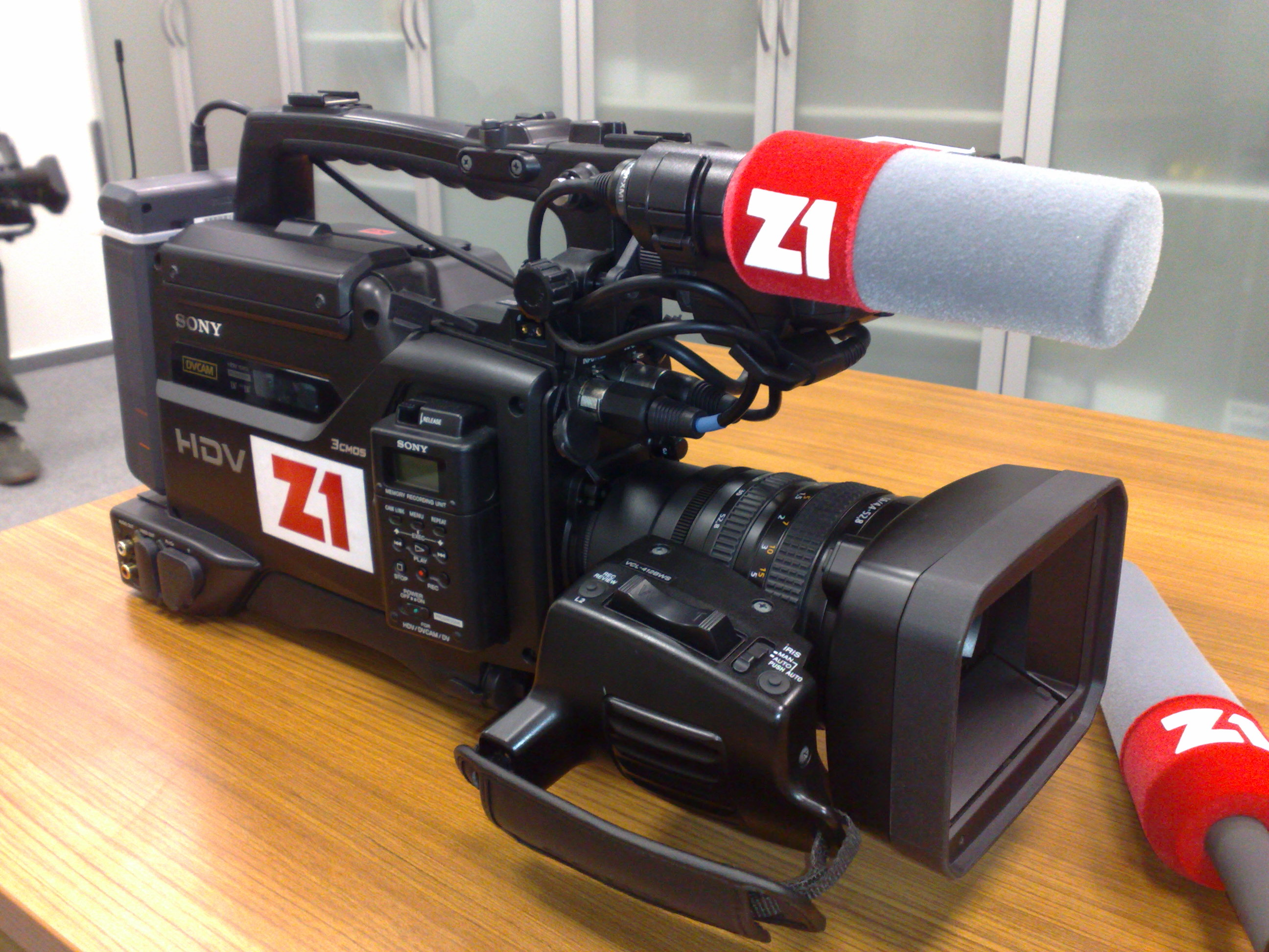 camera television Z1, CZ, 2008